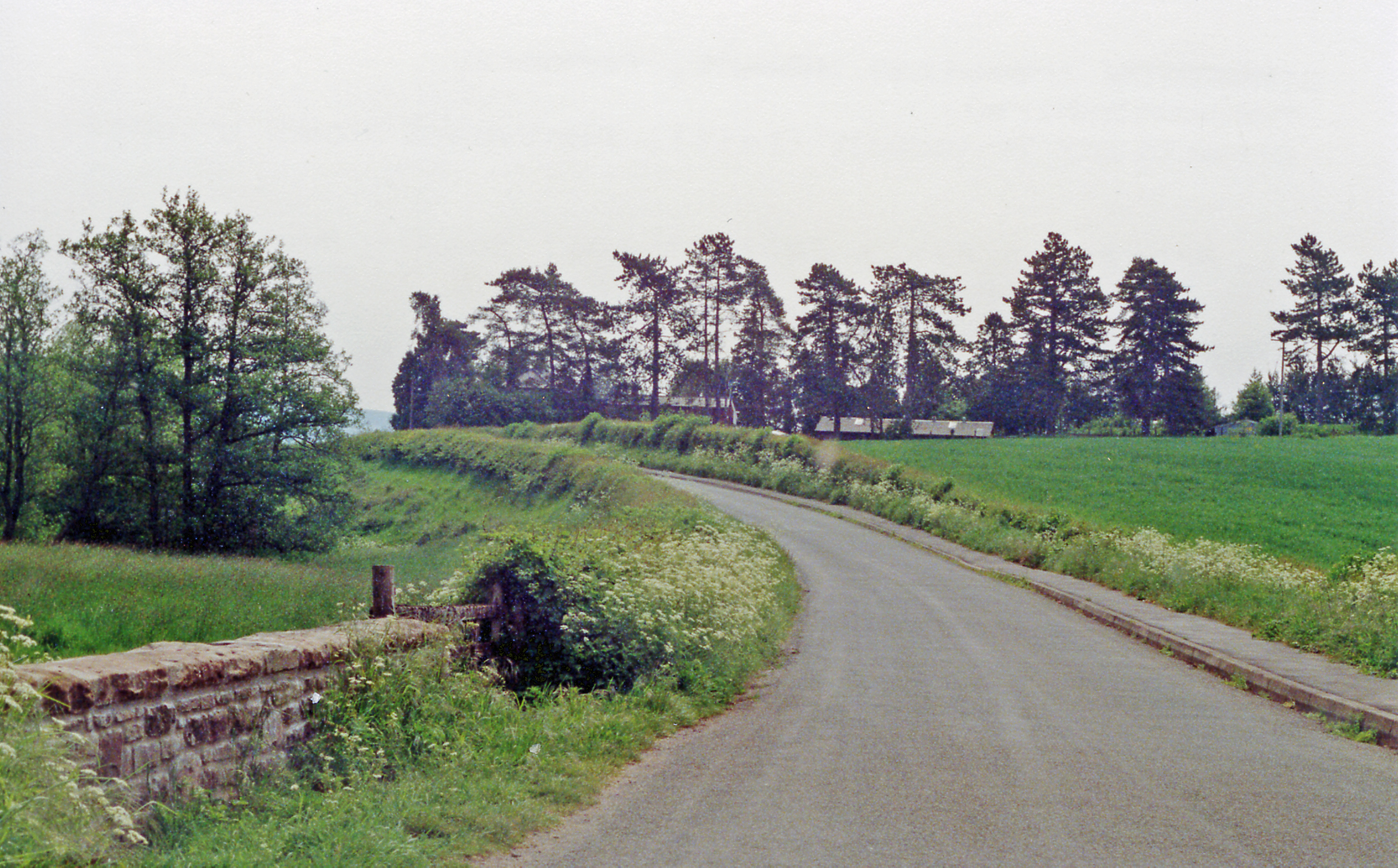 Dingestow: site/remains of former station, 1990. View southward, with probable station house in the trees: ex-GWR Monmouth Troy (to left) - Pontypool Road (to right) line, closed completely 13/6/55.